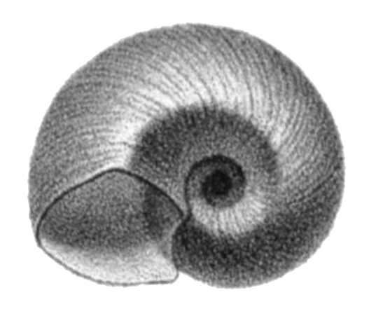 Drawing of an apical view of the shell of Choanomphalus maacki maacki.